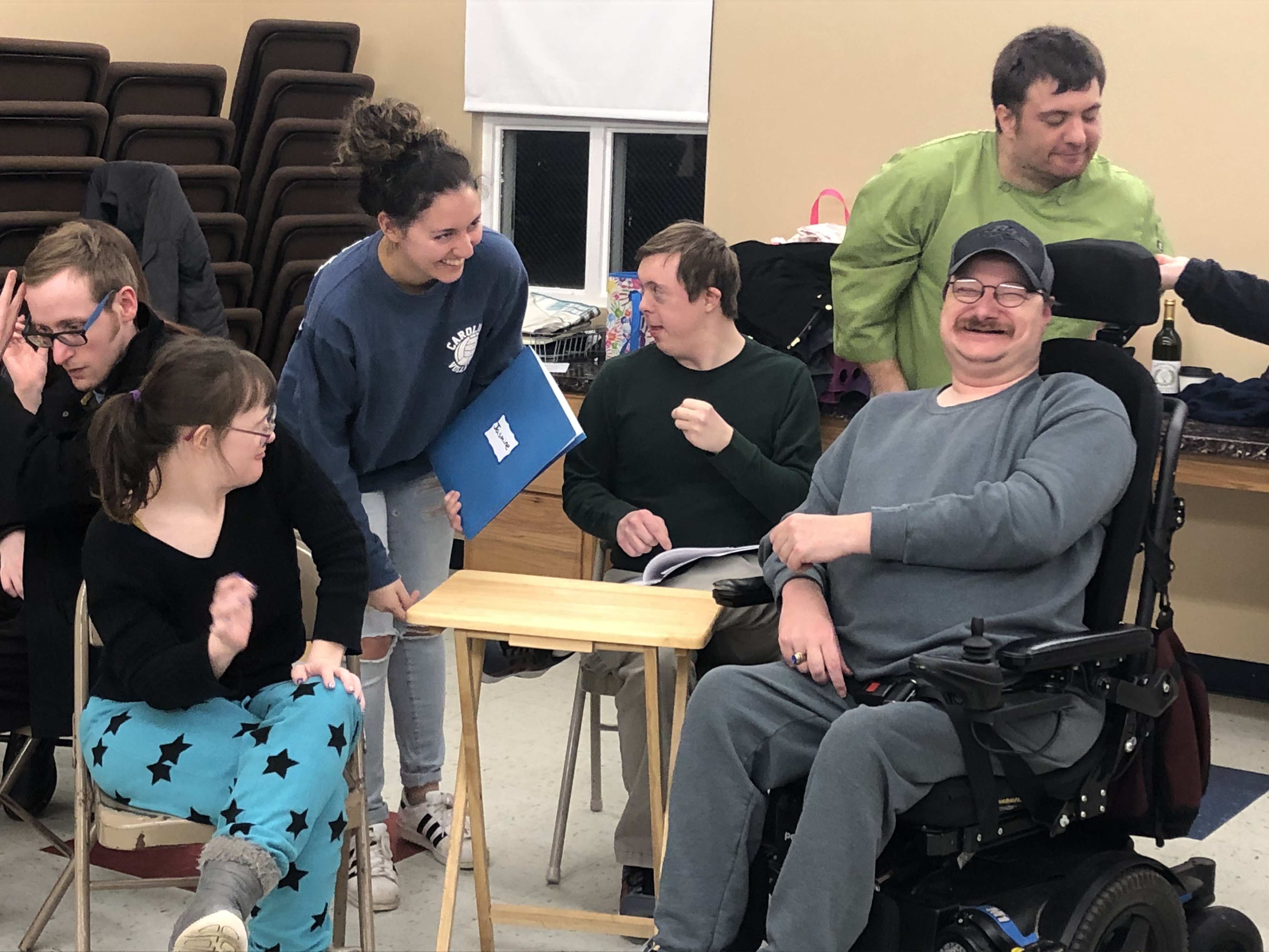 Actors and staff collaborate to rehearse their original one-act show "Cosmic Crime" (2020).